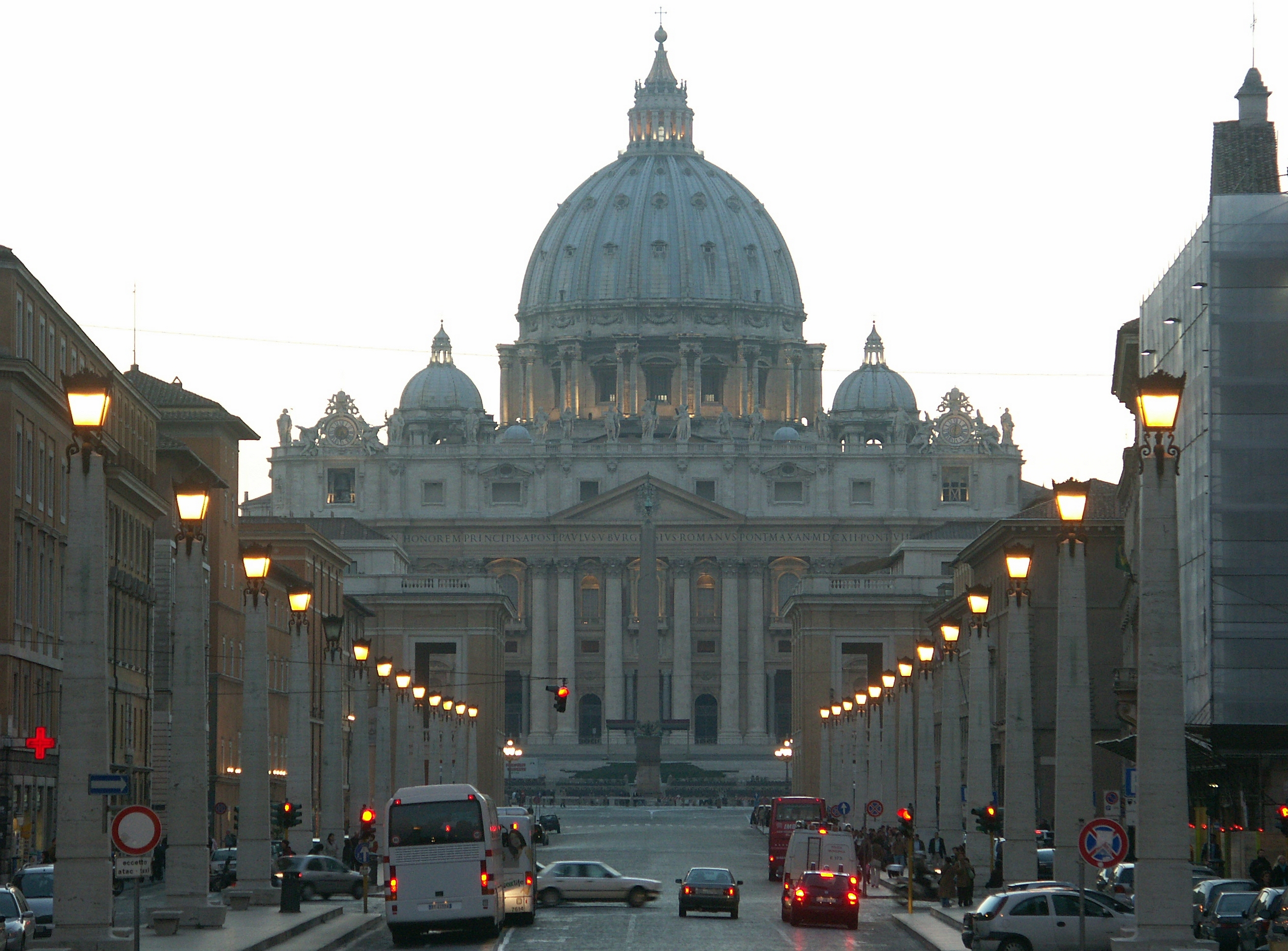 Rom, Vatikan, Blick auf den Petersdom (von der Via della Conciliazione)